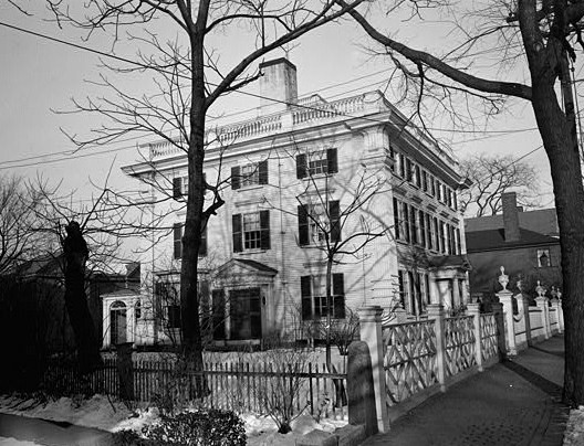 Jerathmeel Peirce Place, 80 Federal Street, Salem (Essex County, Massachusetts) (cropped)